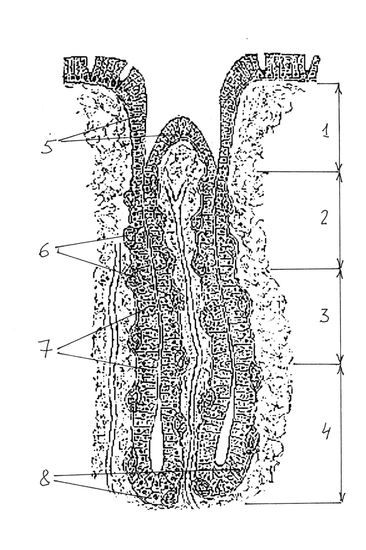 Fundus_Glands , correction of (mariking)